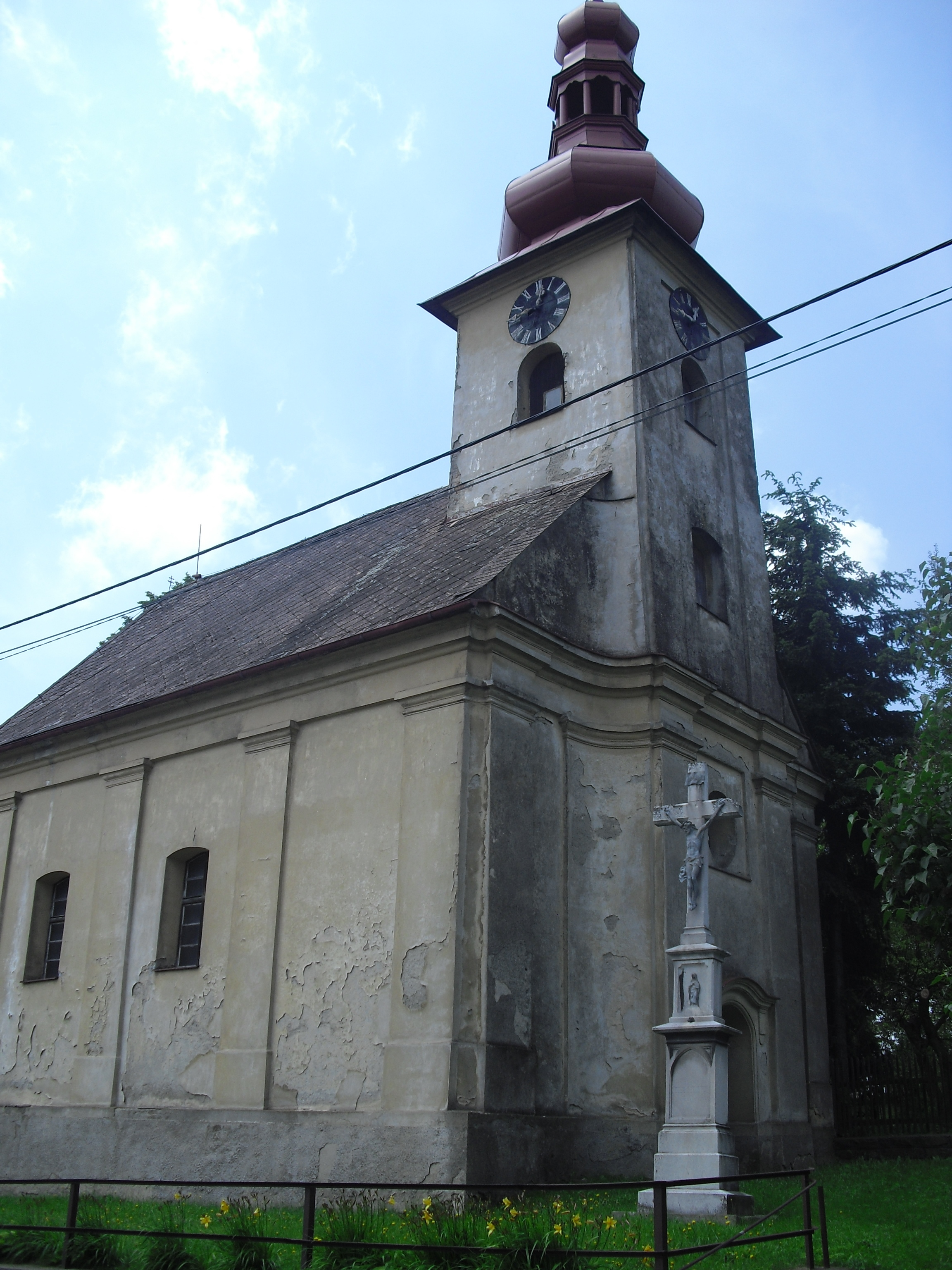 Odry, Nový Jičín District, Czech Republic. Holy Trinity Church, the center of the village.